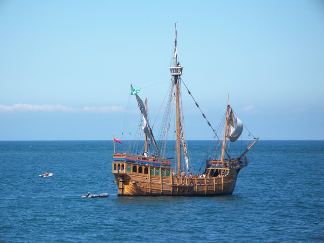 The "Mathew" off Ilfracombe Harbour